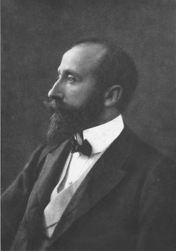 French mathematician Carlo Bourlet (1866-1913)